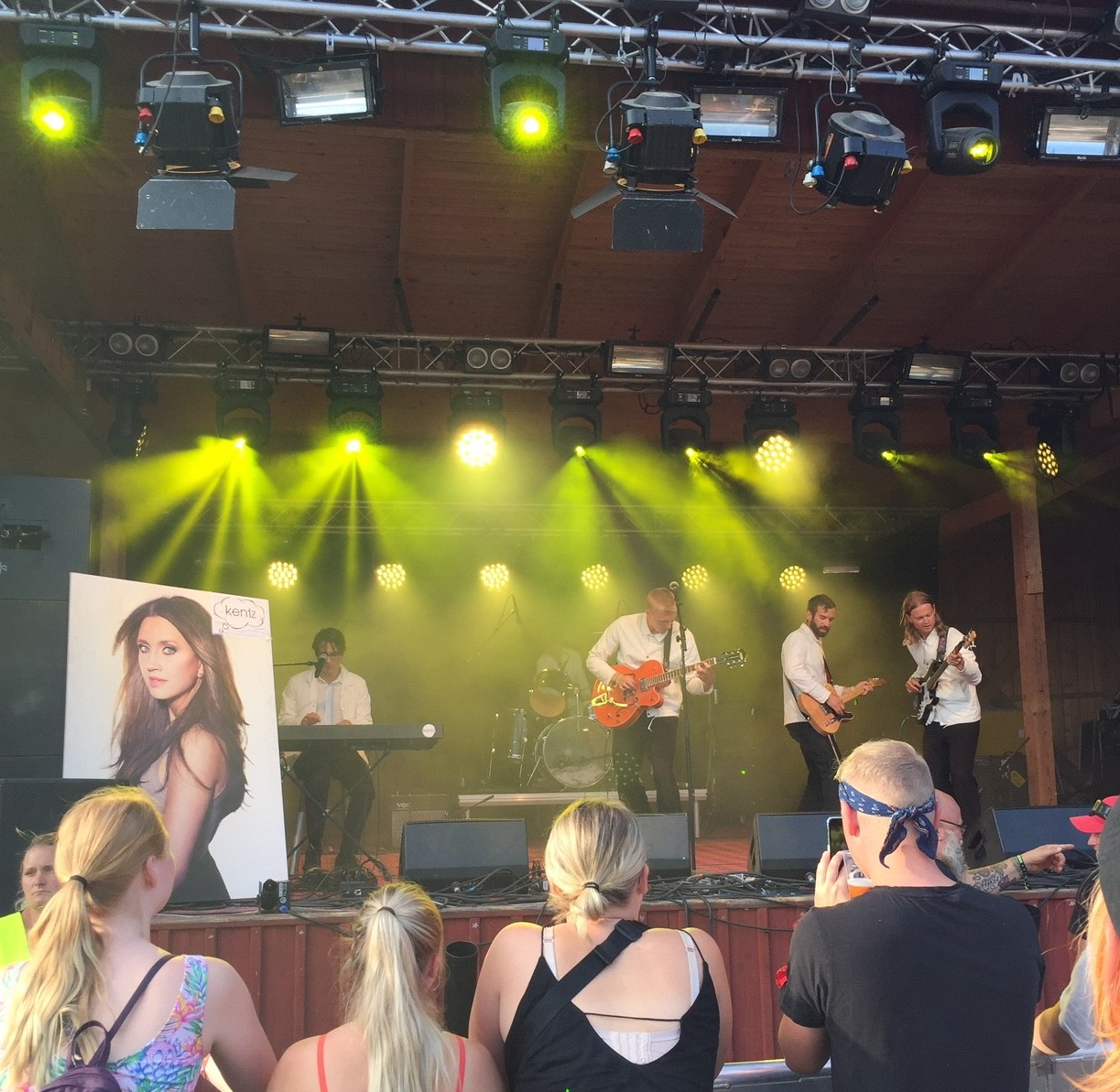 kentz at Emmaboda Festival 2018